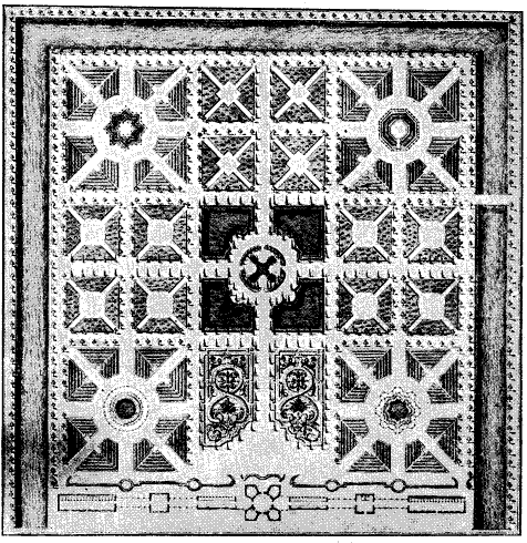 The garden at Sophie Amalienborg before the alterations after the big fire 1689